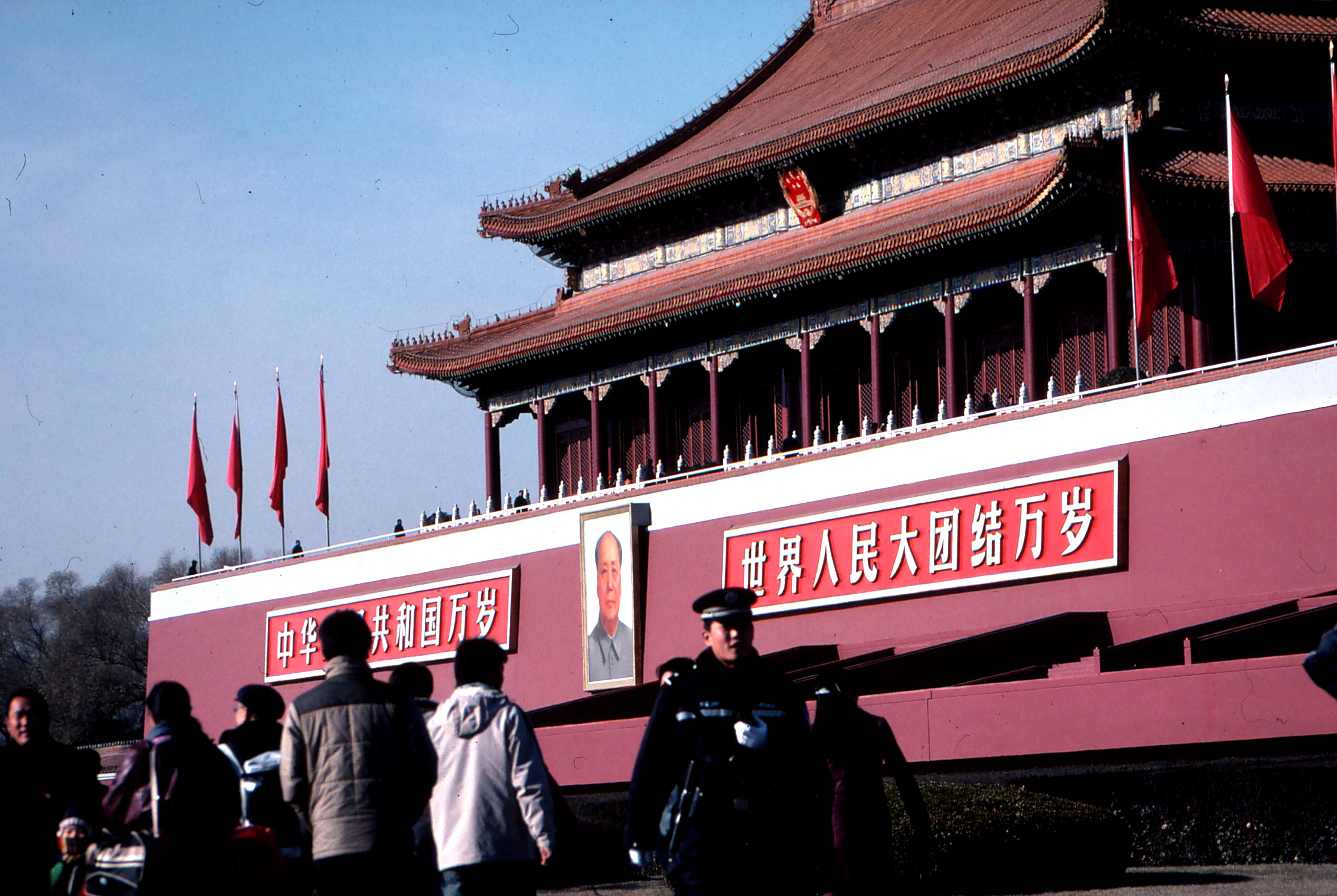 The Tiananmen gate house in Beijing, China.